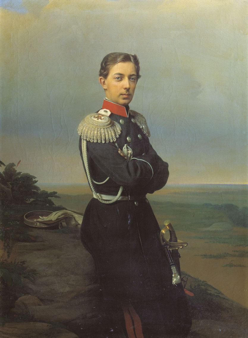 Grand Duke and Tsarevich Nicholas Alexandrovich of Russia (1843–1865), the Heir to the Russian Throne.